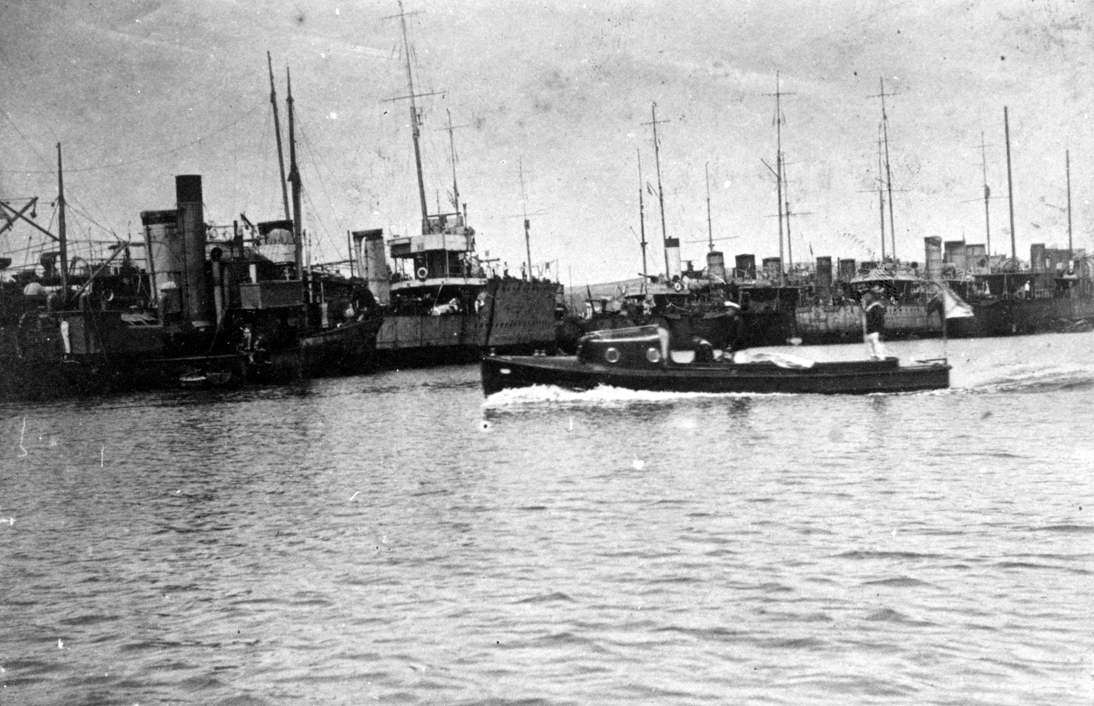 Bizerte, 1921.